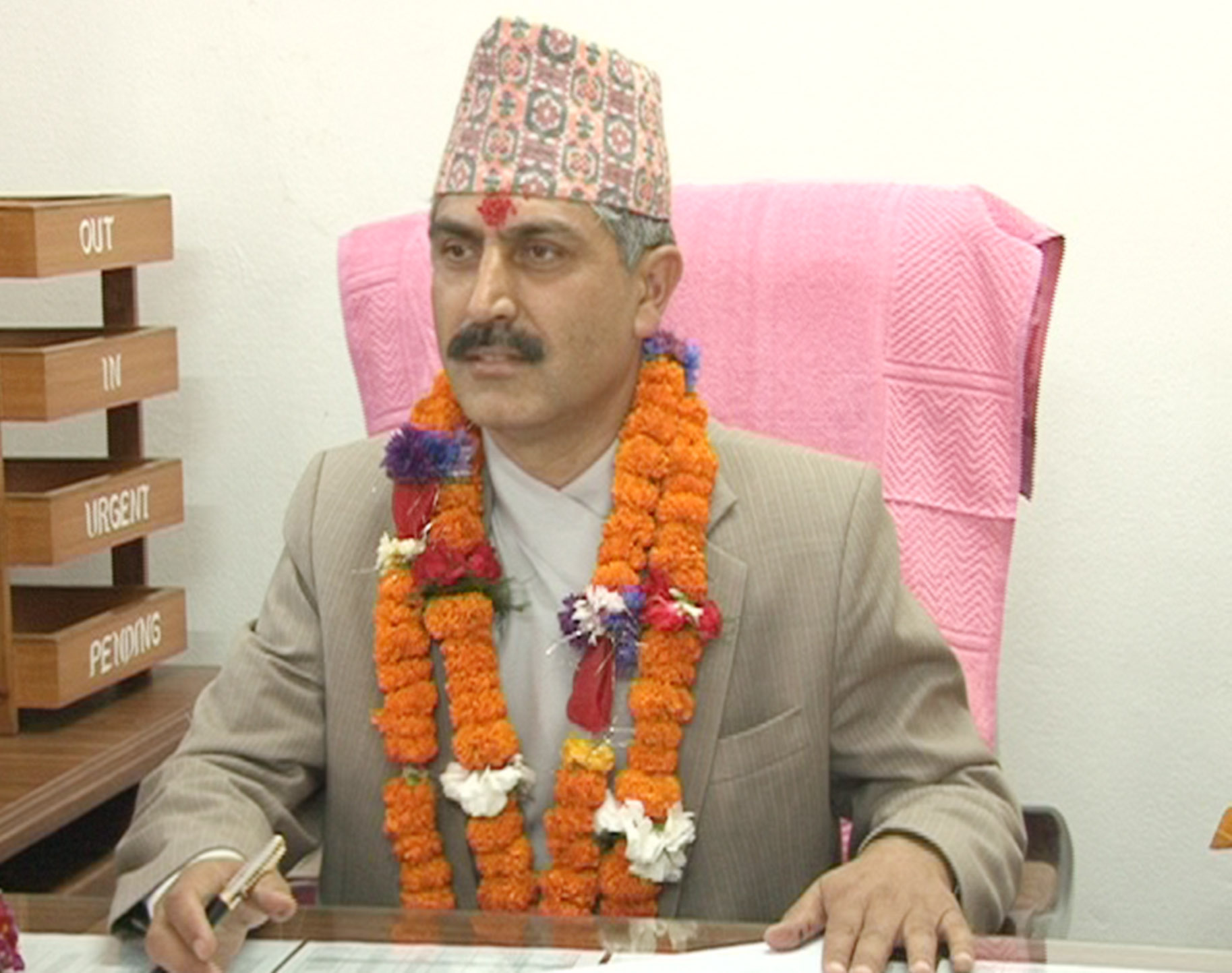 Shankar Prasad Koirala, minister for Finance of Nepal.